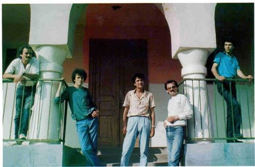 Anëtarët e grupit Tonik